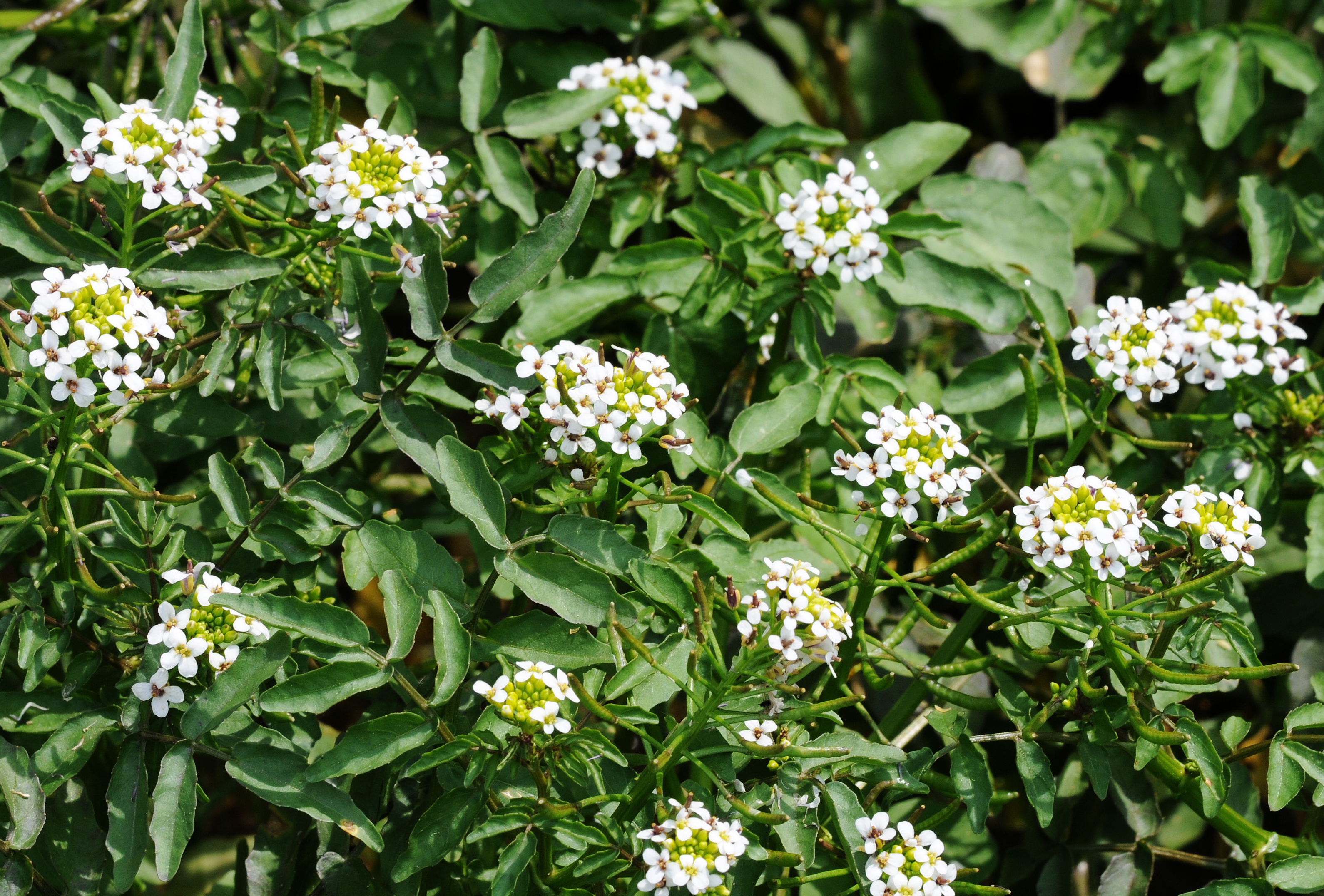 Flowers of Watercress plant (Nasturtium officinale). Adana, Turkey.